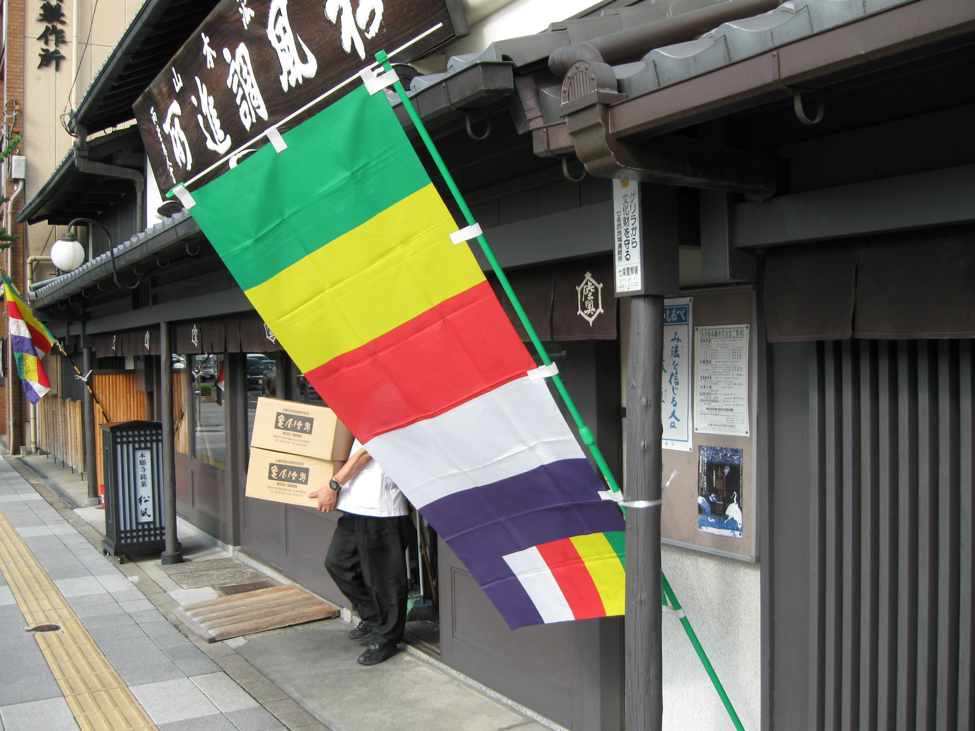 A variant Buddhist flag near Nishi Hongwanji in Kyoto.